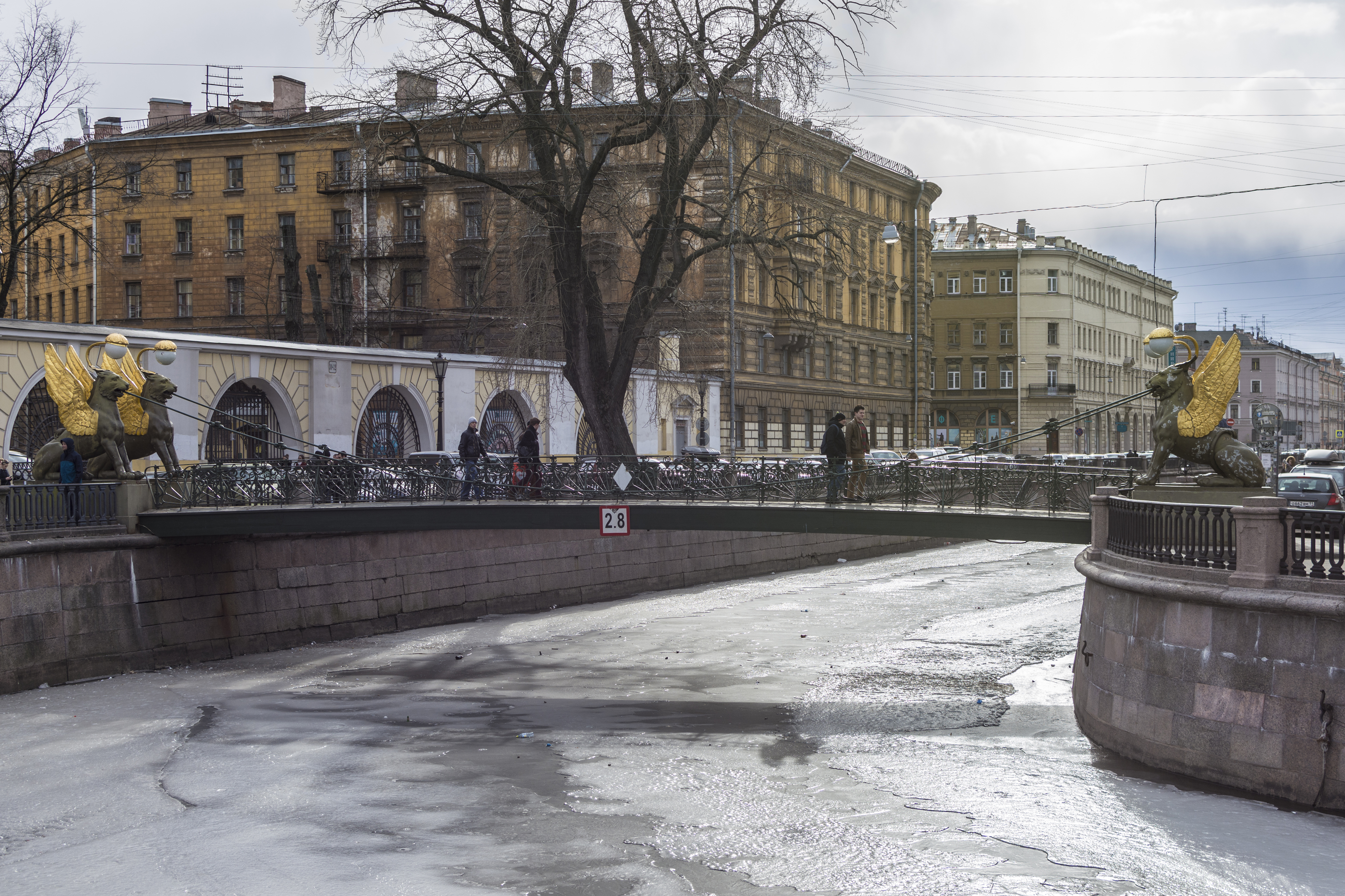 Bankovsky Bridge in Saint Petersburg